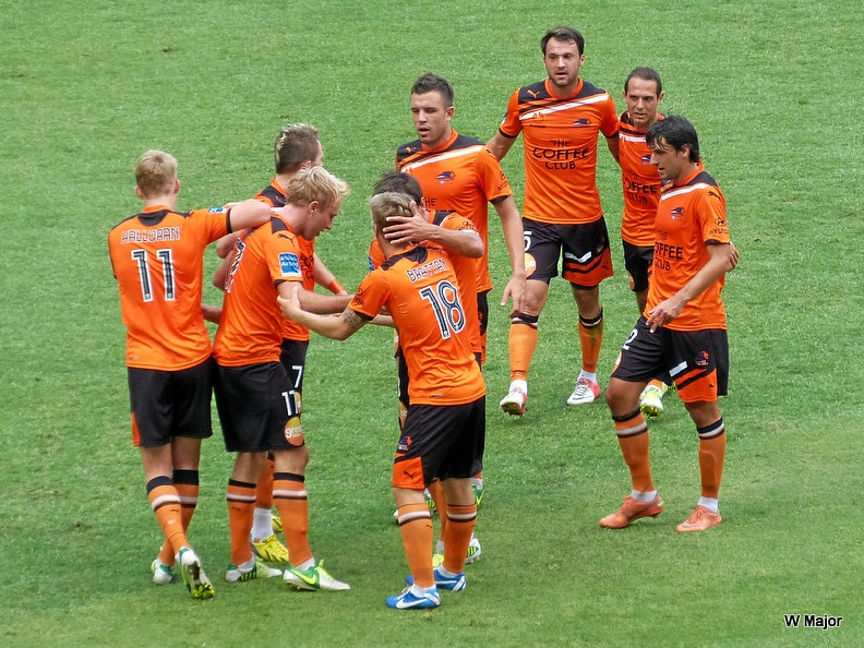 A-League Brisbane Roar v Western Sydney Wanderers 20 January 2013